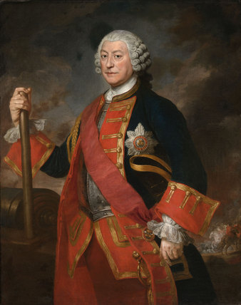 General Jean Louis Ligonier, in the uniform of Colonel of the Royal Regiment of Horse Guards.